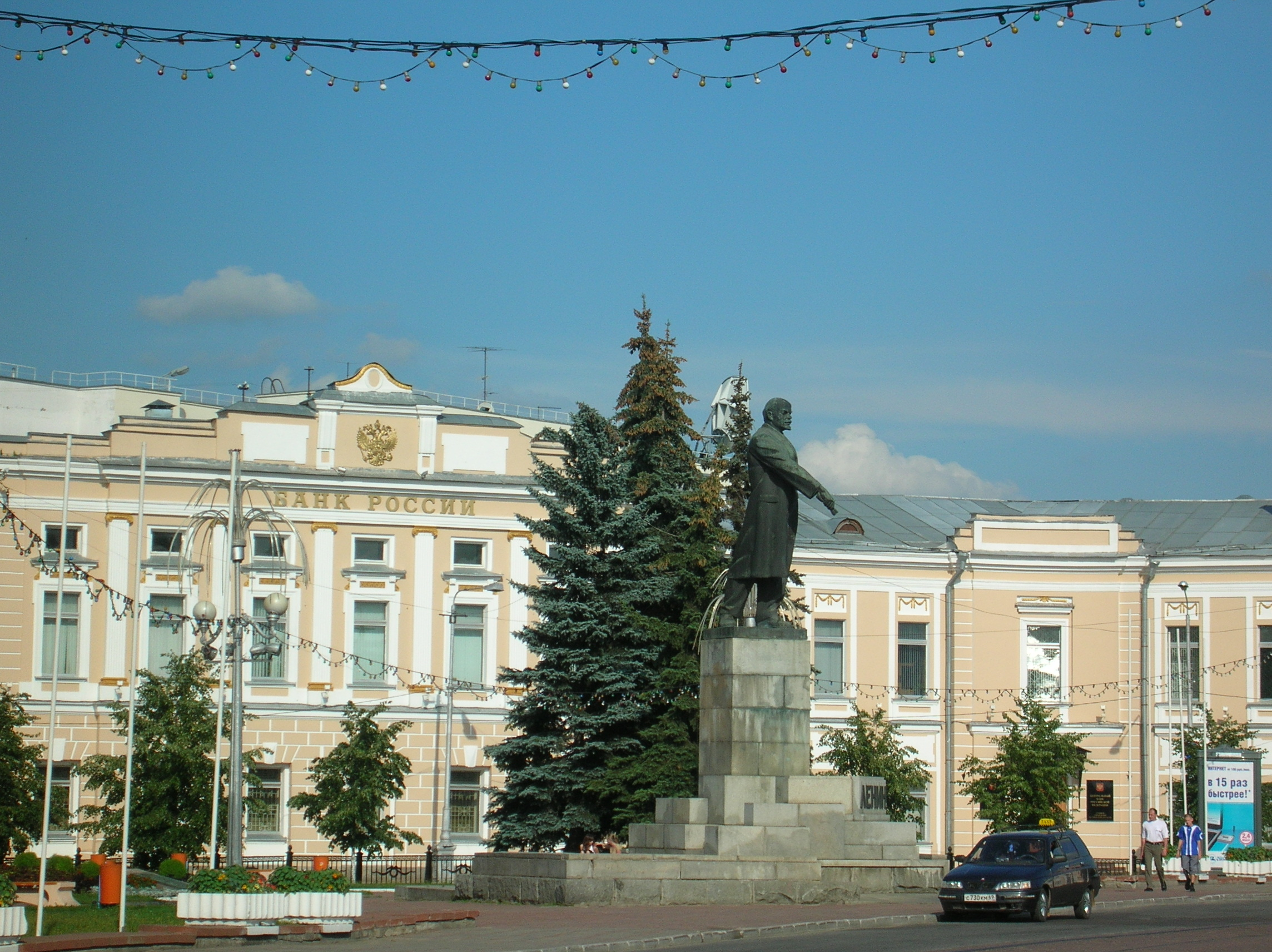 Lenin on the Central square of Tver